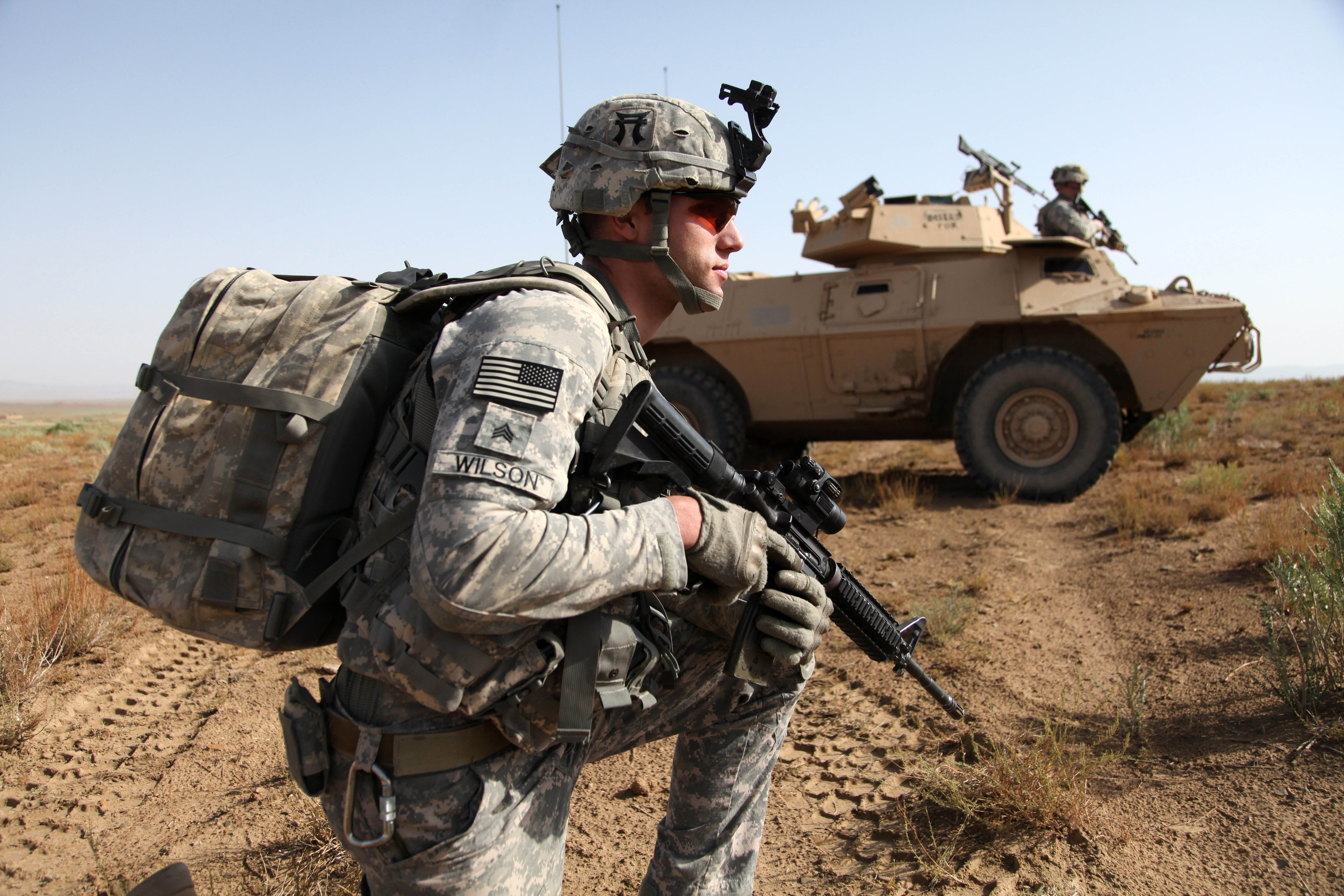 U.S. Army Sgt. Joseph Wilson with Charlie Company, 3rd Battalion, 187th Infantry Regiment, 3rd Brigade, 101st Airborne Division provides security during a mission in the Zirat Mountain Area, Waza Kwah District, Paktika province, Afghanistan, on July 7, 2010. The purpose of the mission is to disrupt anti-Afghan forces and find enemy weapons caches.